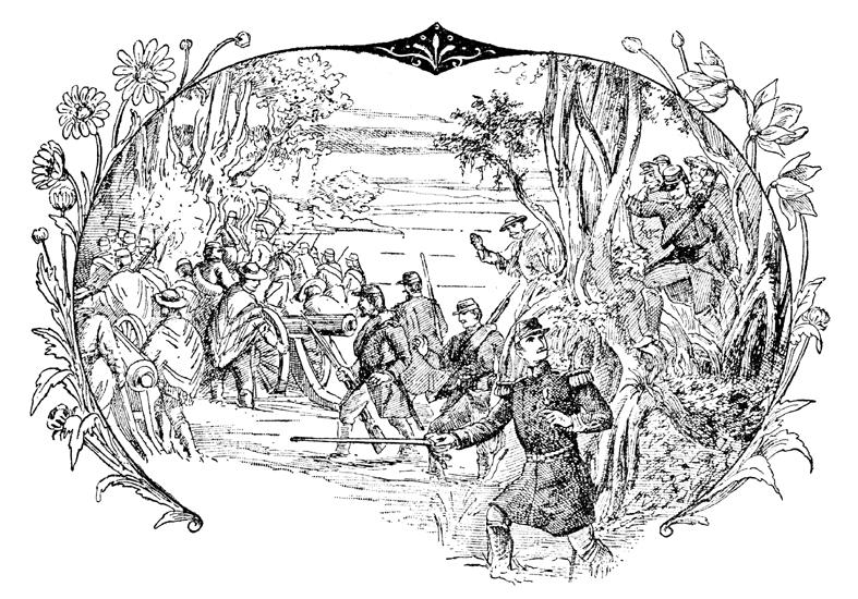 Vie Illustrée de Garcia Moreno by Charles D`Hallencourtm, France 1887